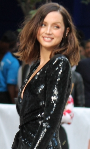 from Ana de Armas at the 2019 Toronto International Film Festival.